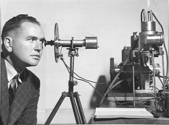 Optical Munitions Panel - Melbourne University. Dr. E. Burhop measures with an optical pyrometer and temperature within an apparatus in which rhodium plating in vacuo is being carried out.